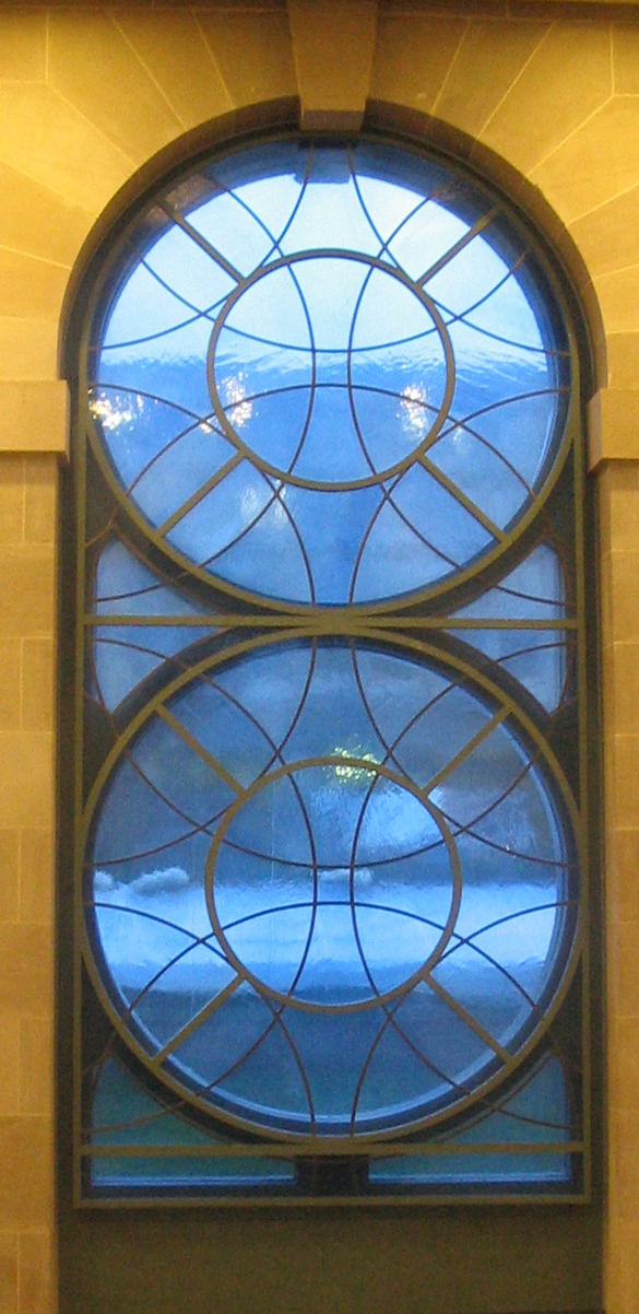 Cropped from an image I took in 2007 and uploaded for free use